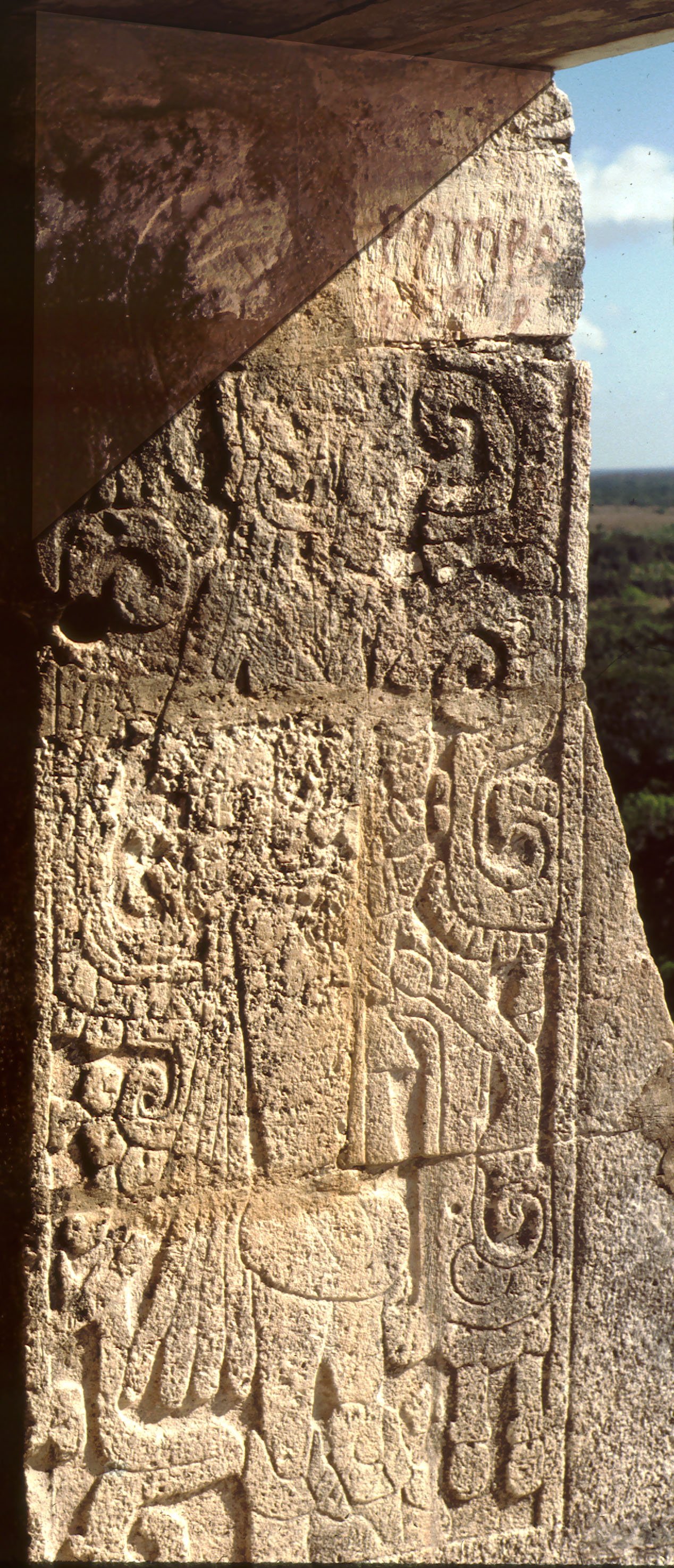 Chichen Itza, Yucatan, Mexico: Castillo, Tempel, door jamb.